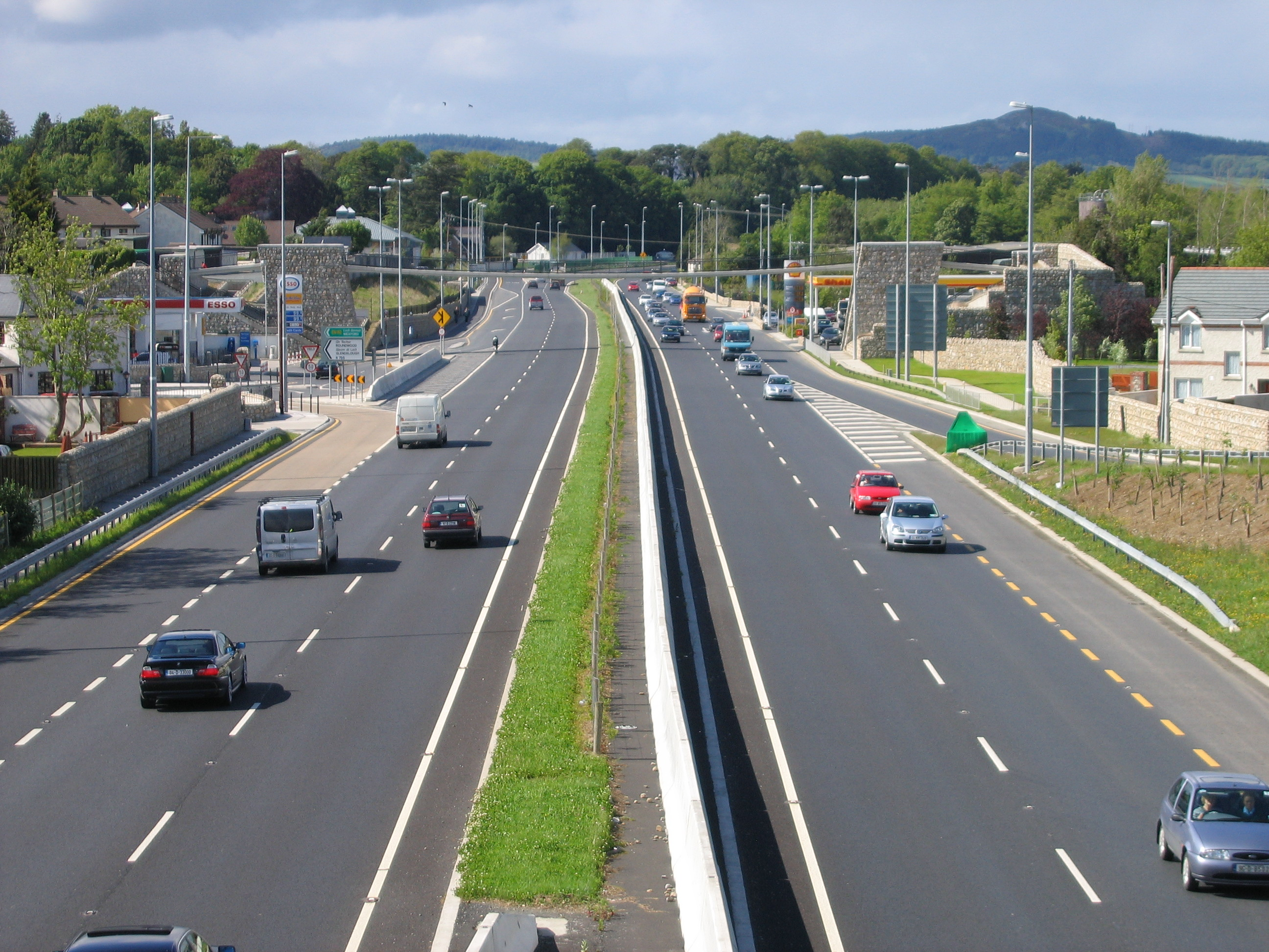 Kilmacanogue